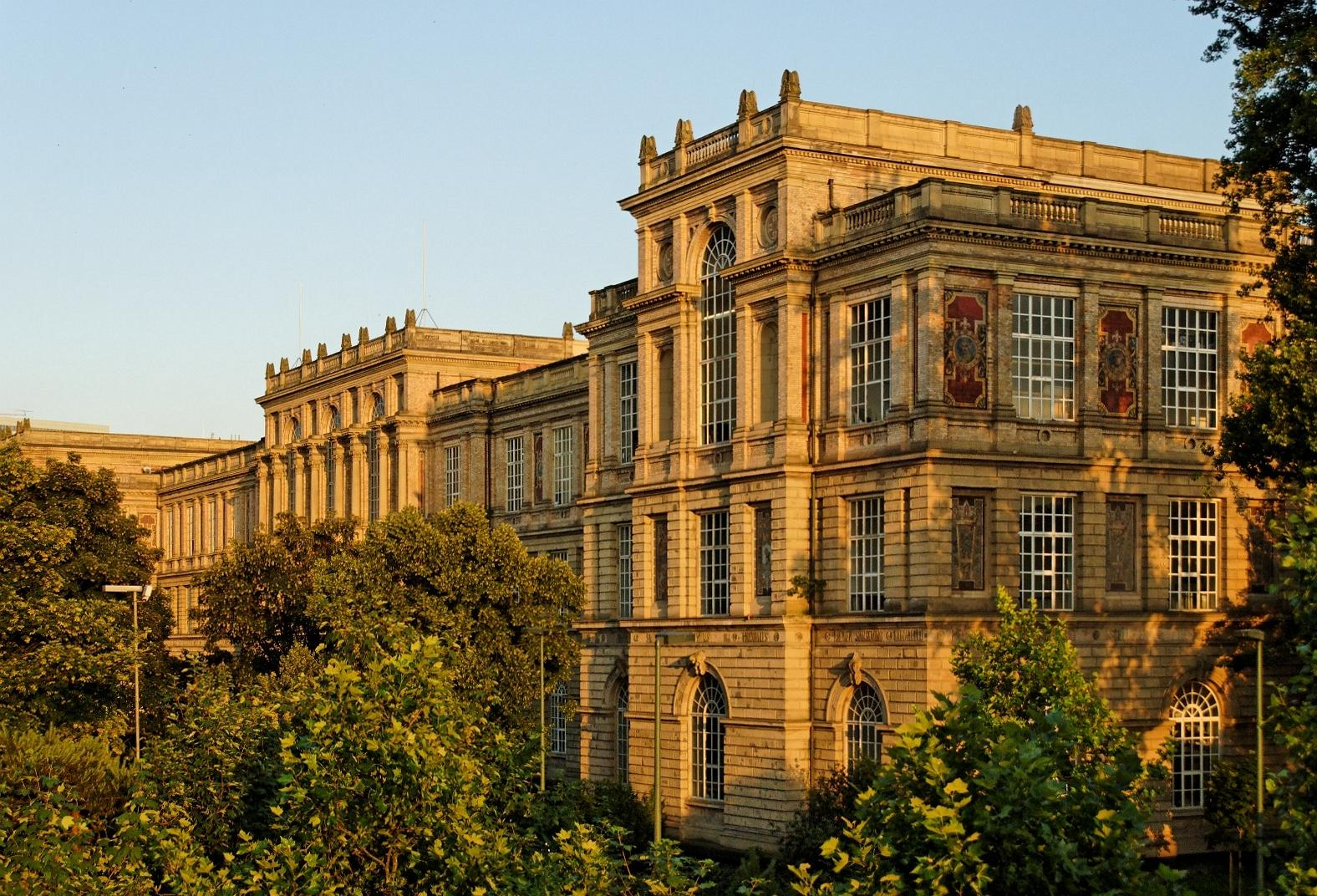 Kunstakademie in Düsseldorf-Altstadt, Germany